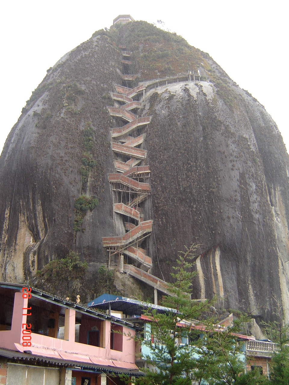 El Peñol Rock